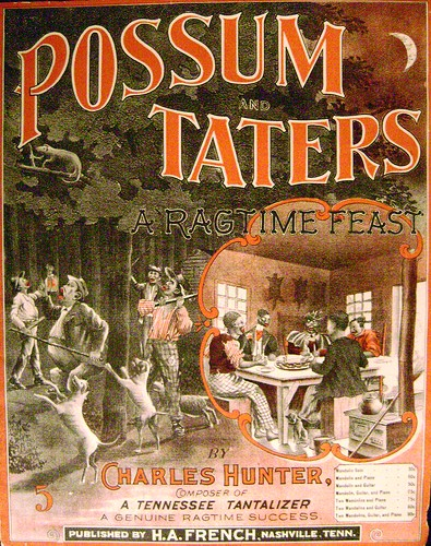 Possum and Taters, 1900